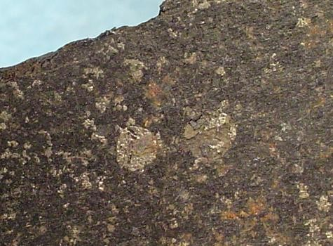 Iron Locality: Uivfaq (Ovifak), Qeqertarsuaq Island (Disko Island), Kitaa (West Greenland) Province, Greenland (Locality at ) Size: 7.8 x 3.5 x 0.6 cm. Native iron is EXTREMELY RARE in igneous rocks, even though it forms the majority of the earth’s core. This OLD-TIME, sawed slab is from the Type Locality, remote Disko Island, Greenland and is richly speckled with bright, metallic native iron in basalt matrix. This specimen dates to the late 1800s and has a fine provenance. Ex. American Museum of Natural History and Larry Conklin Collections. This is old, rare, and seldom seen. Most native iron is extra-terrestrial. This one, however, is from some of the oldest crustal elements humans will ever access, and is a rare find to make it into the hands of specimen collections.